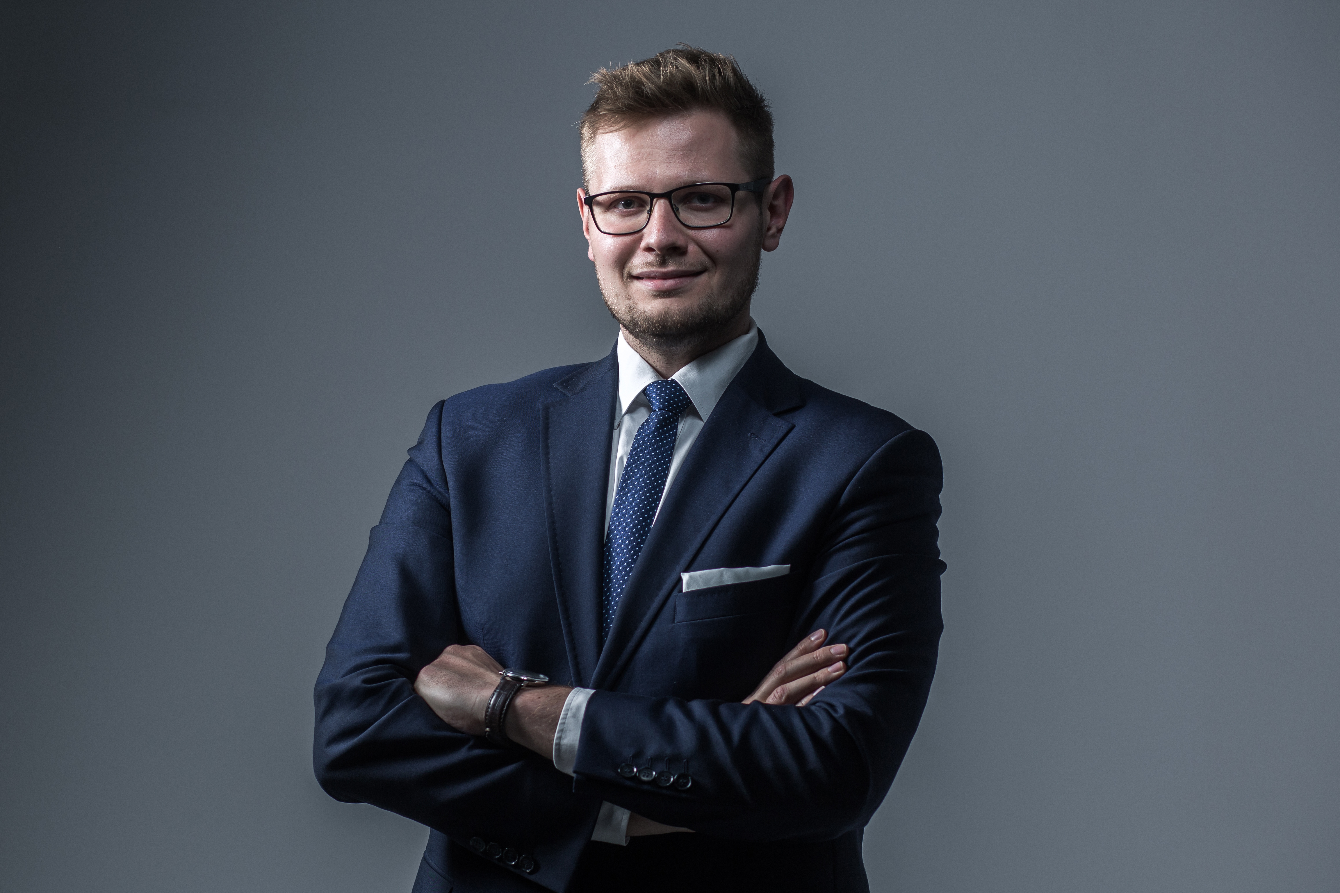 Michał Woś - a business session